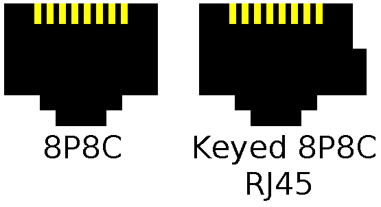 Left: 8P8C (position 8 conductor) or 8PMJ (8-position modular jack) female connector which is widely used and often incorrectly called RJ45 (registed jack 45). Right: true RJ45 female connector which can also be called keyed 8P8C.